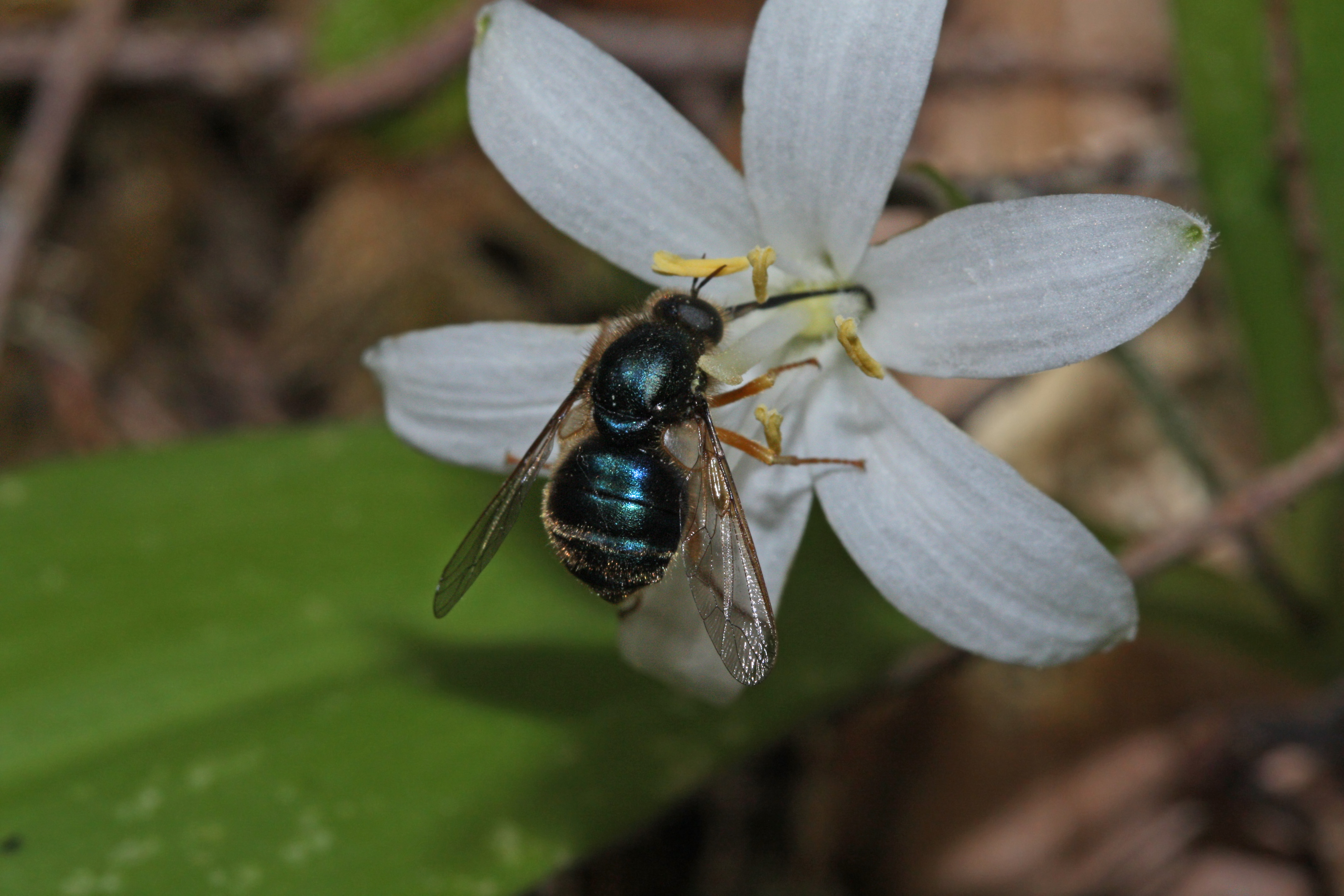 Eulonchus sapphirinus on Queen's Cup, Bride's-bonnet